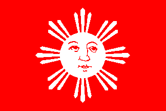 1897 Flag of the Katipunan, a Philippine revolutionary secret society founded by anti-Spanish Filipinos in Manila in 1892. lts discovery in Caloocan city in 1896 initiated Philippine Revolution. (in PNG format)